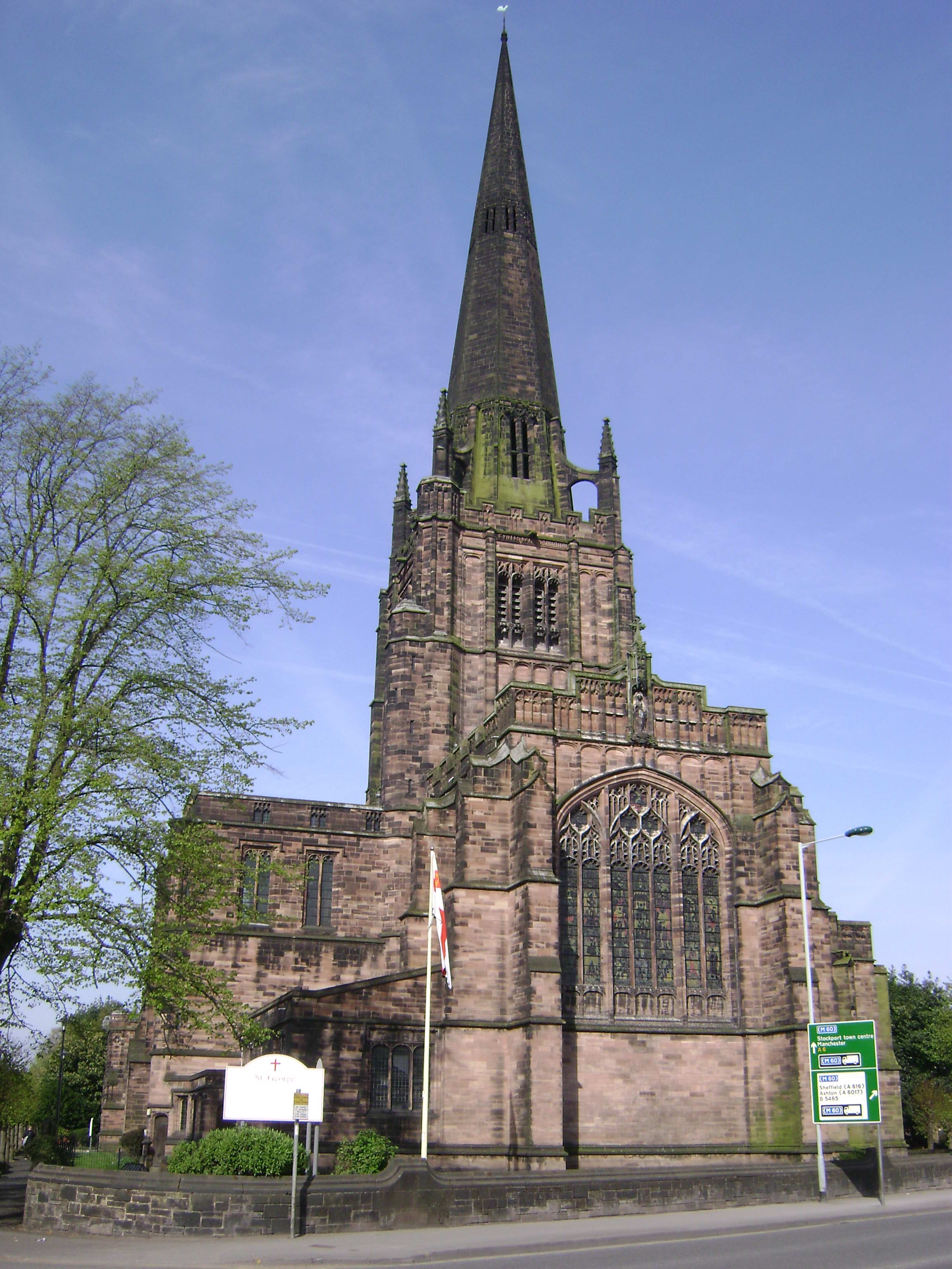 St George's Church, Heaviley, Stockport, (1892–97) from Buxton Road, Stockport